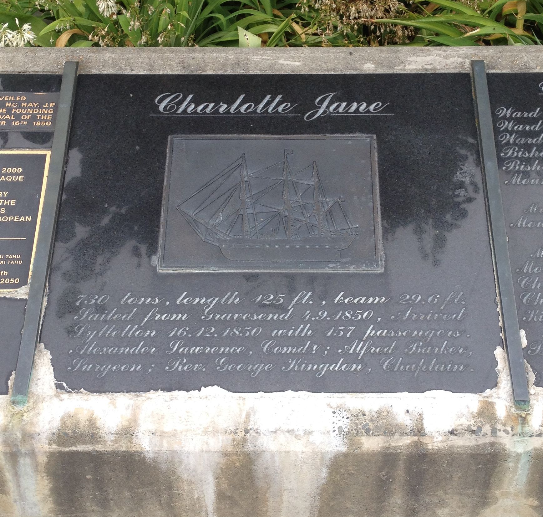 Marble plaques in Cathedral Square are commemorating the First Four Ships.